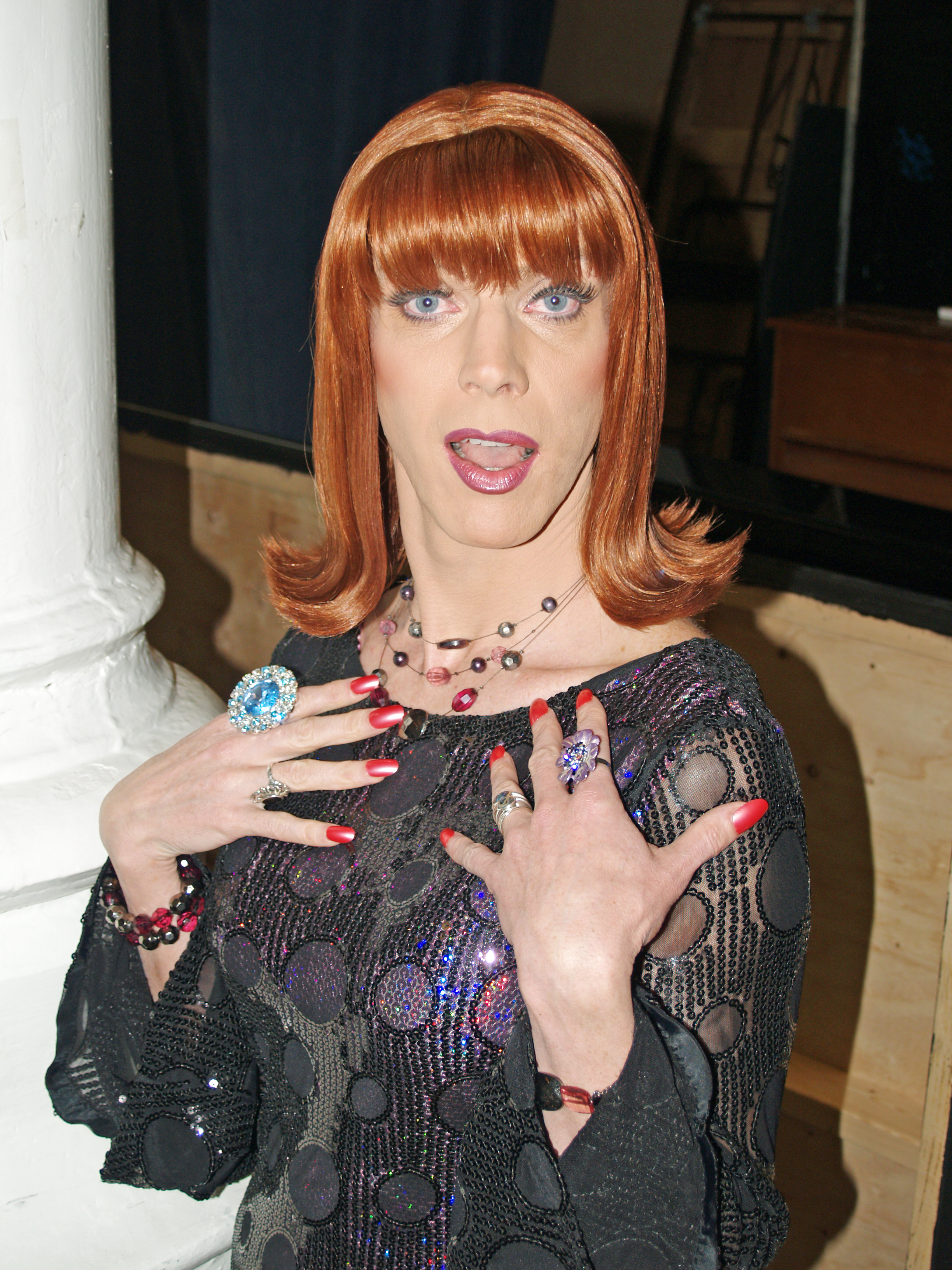 Miss Coco Peru back stage.